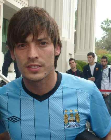 Silva in 2011